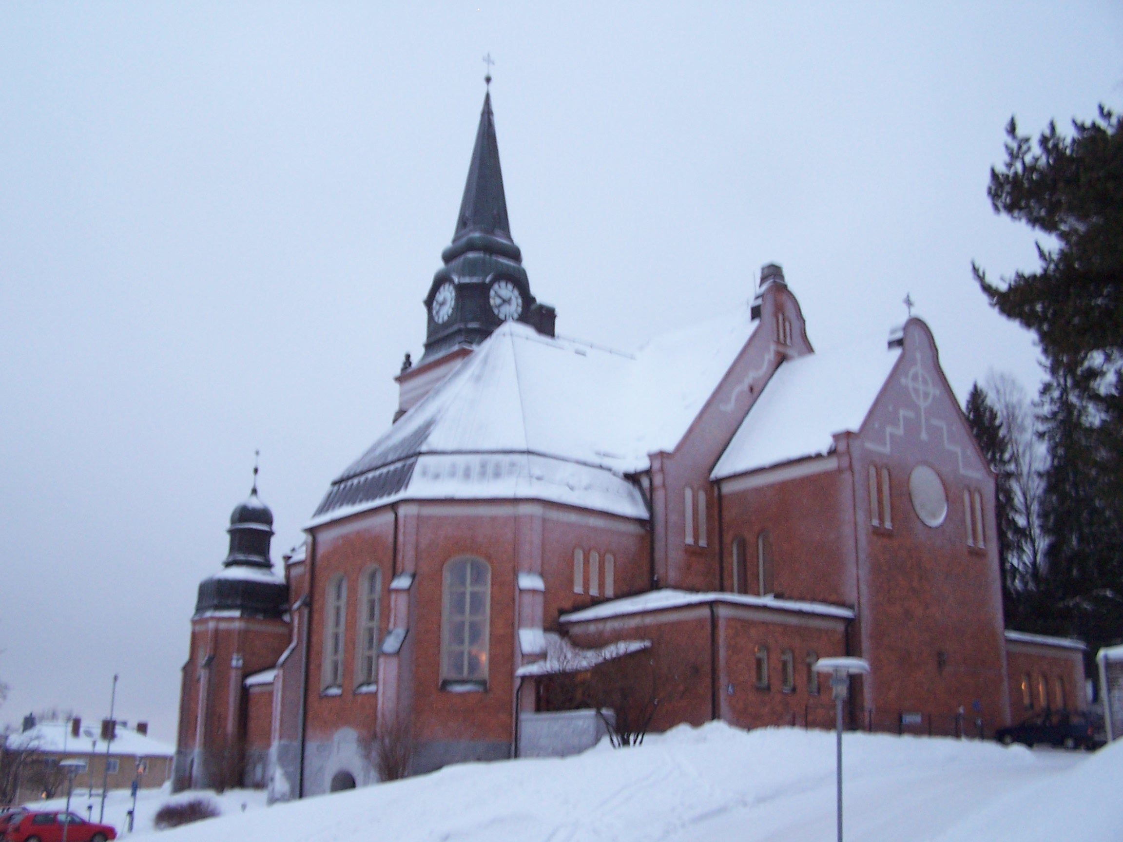 Örnsköldsvik church, Sweden